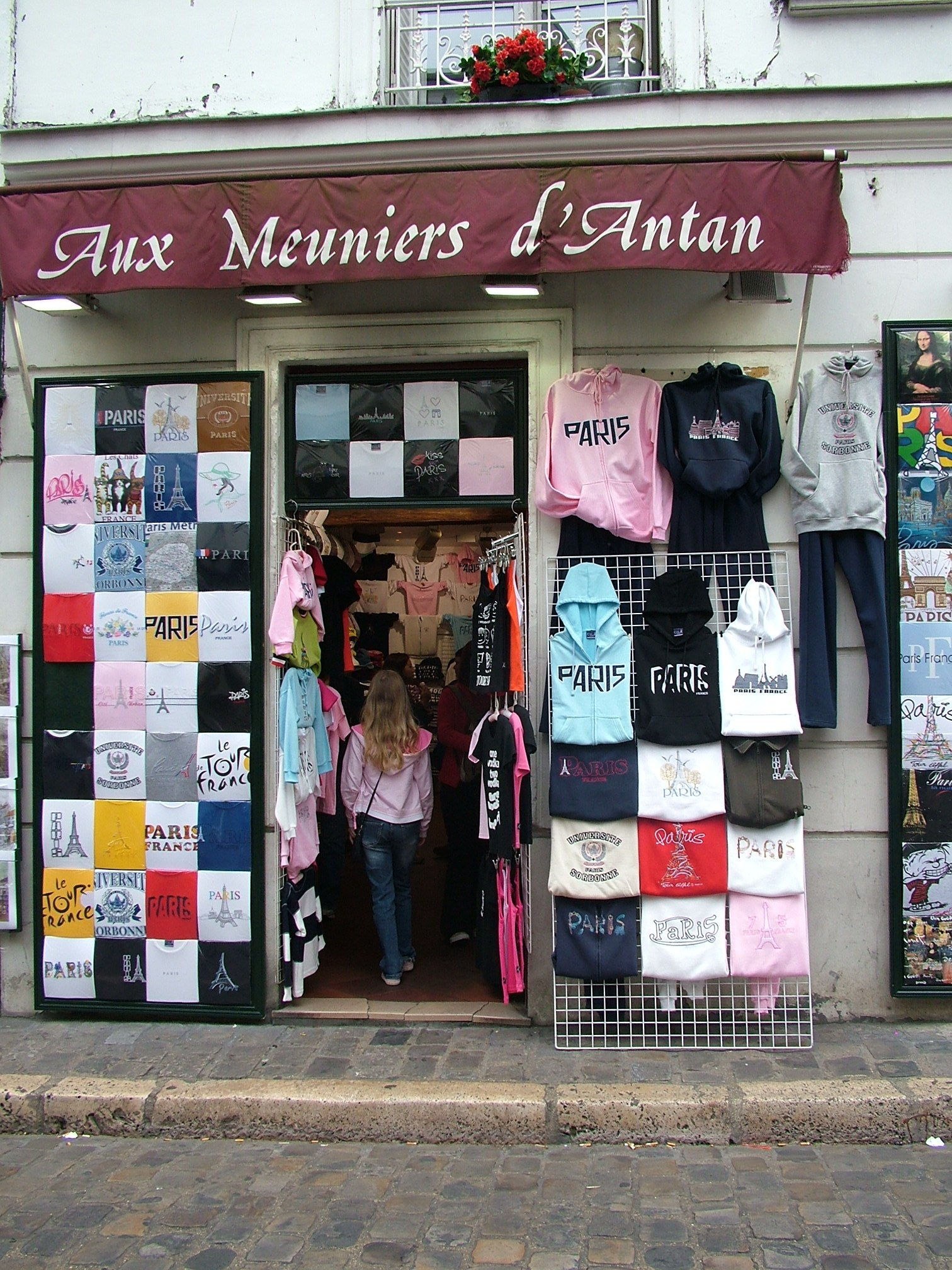 T-Shirt shop in Paris, 6bis rue du Mont-Cenis at Montmartre Photographed by: Per Palmkvist Knudsen